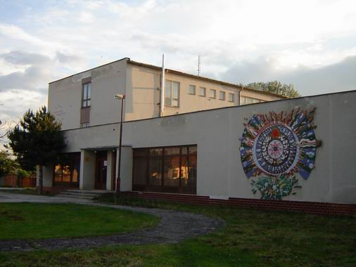 Vrbová nad Váhom (Vágfüzes) JRD-headquarters